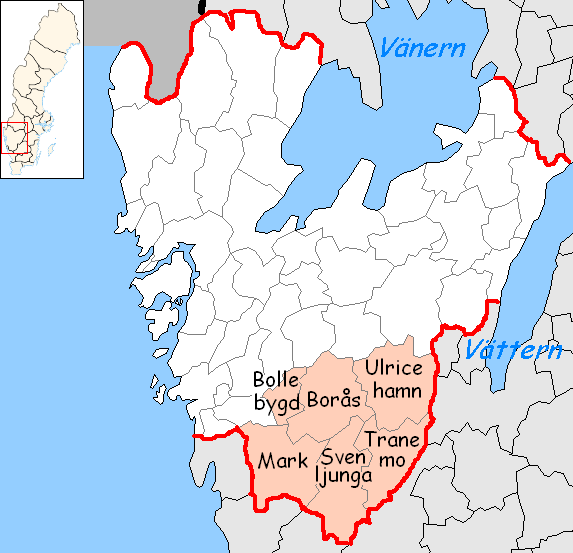 Region of Sjuhärad, Västergötland